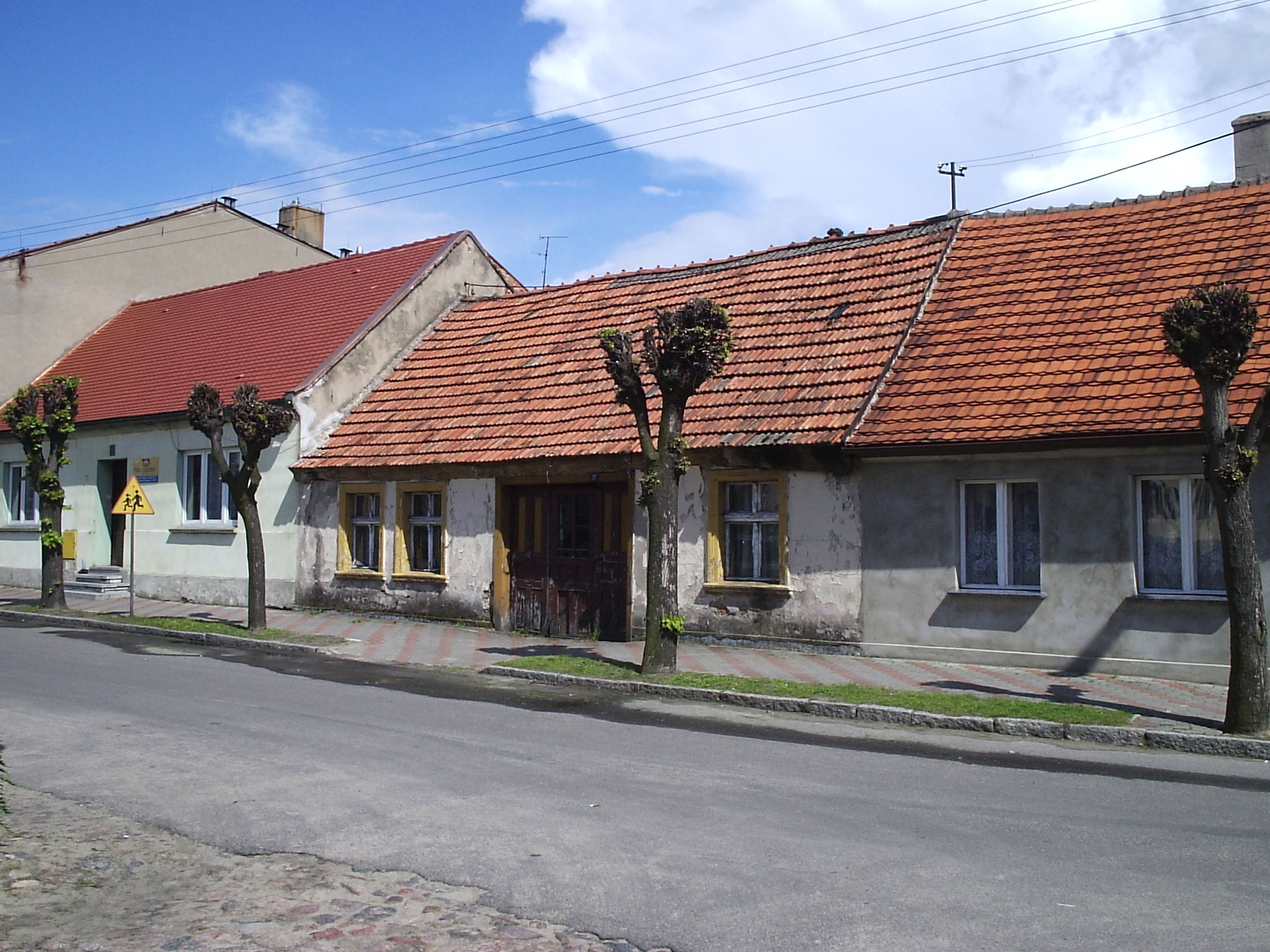 Market Square in Pogorzela, Poland